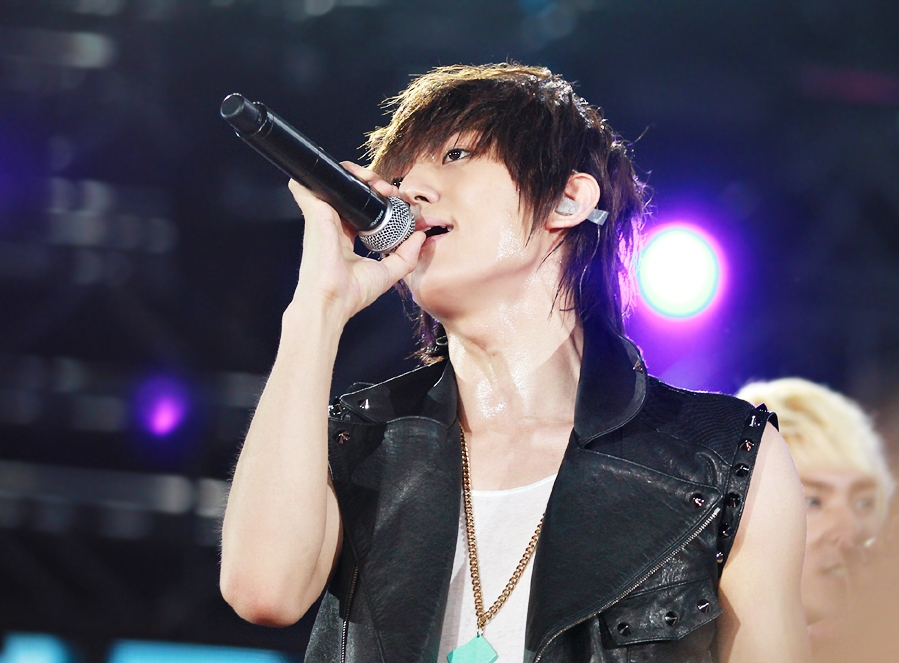 Jang Hyun-seung at the Korean Music Wave in Bangkok on March 12, 2011.